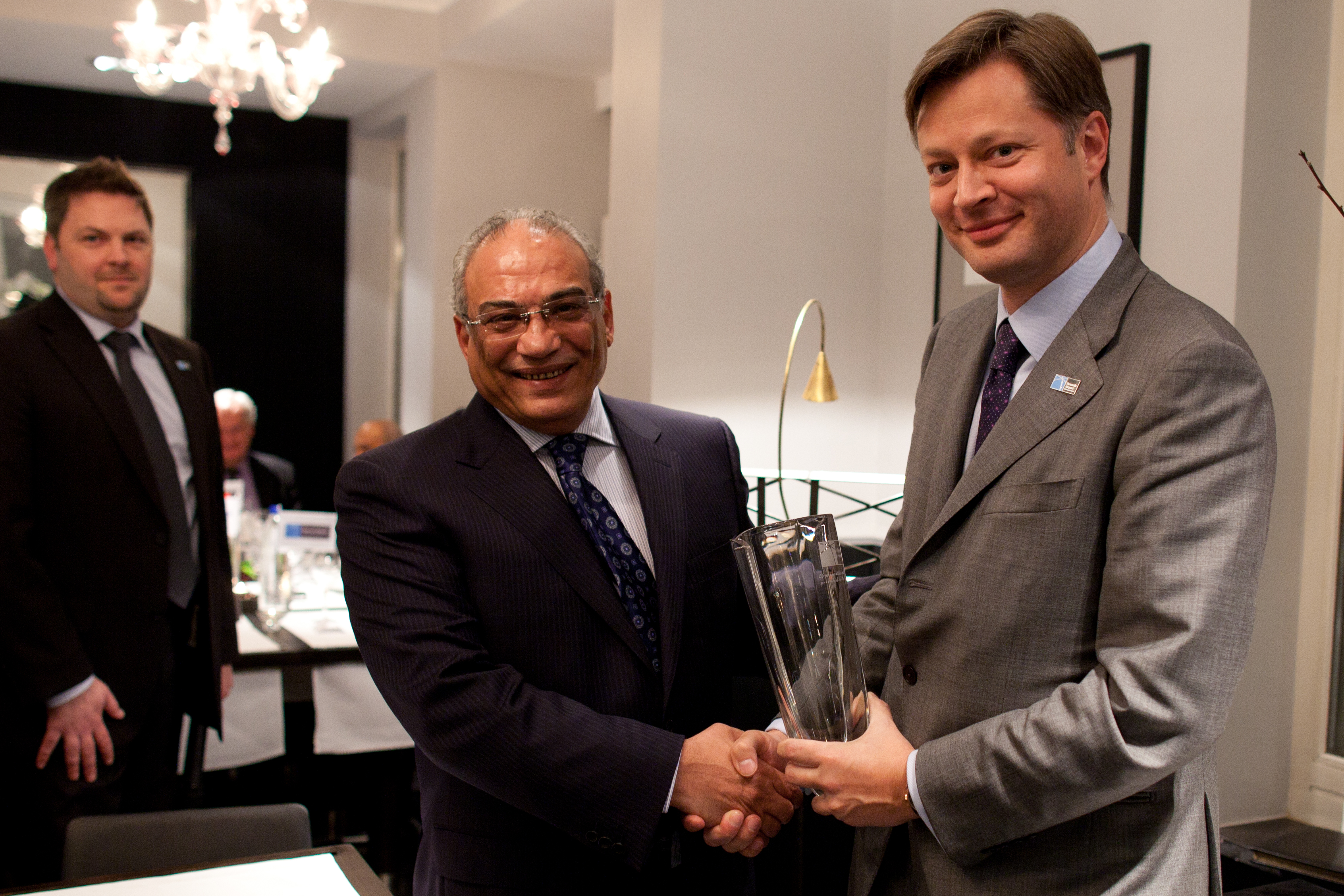 25 years Saudi Airlines Cargo @ Brussels Airport. Left: Fahad Hammad, CEO Saudi Airlines Cargo; right: Arnaud Feist, CEO Brussels Airport